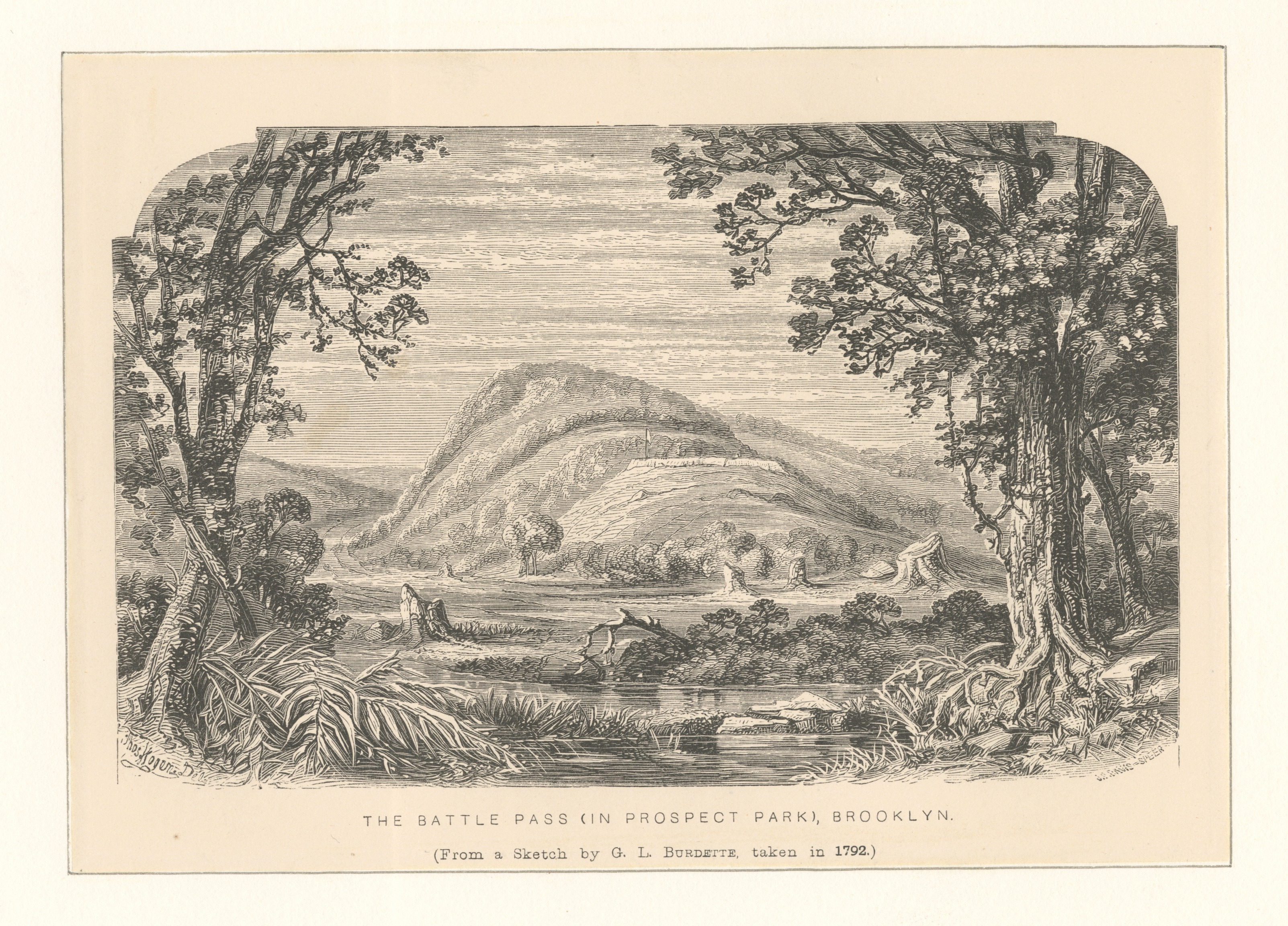 Printmakers include J.B. Forrest, J.N. Gimbrede, H.B. Hall and John Hill. Title from Calendar of the Emmet Collection. EM8093 Statement of responsibility : J.F. Davis-Speer